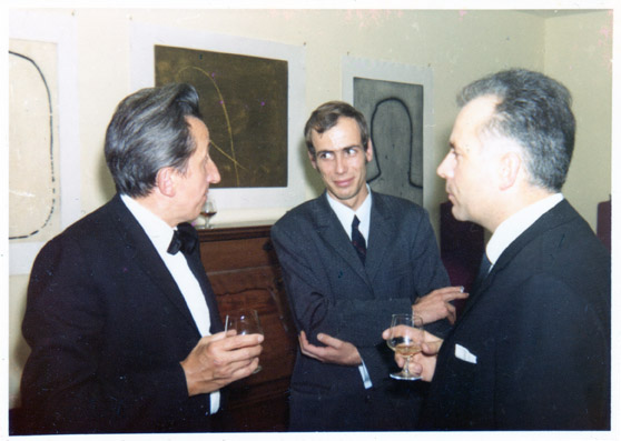 Francois Fiedler speaks to attendees at a salon exhibit in Paris